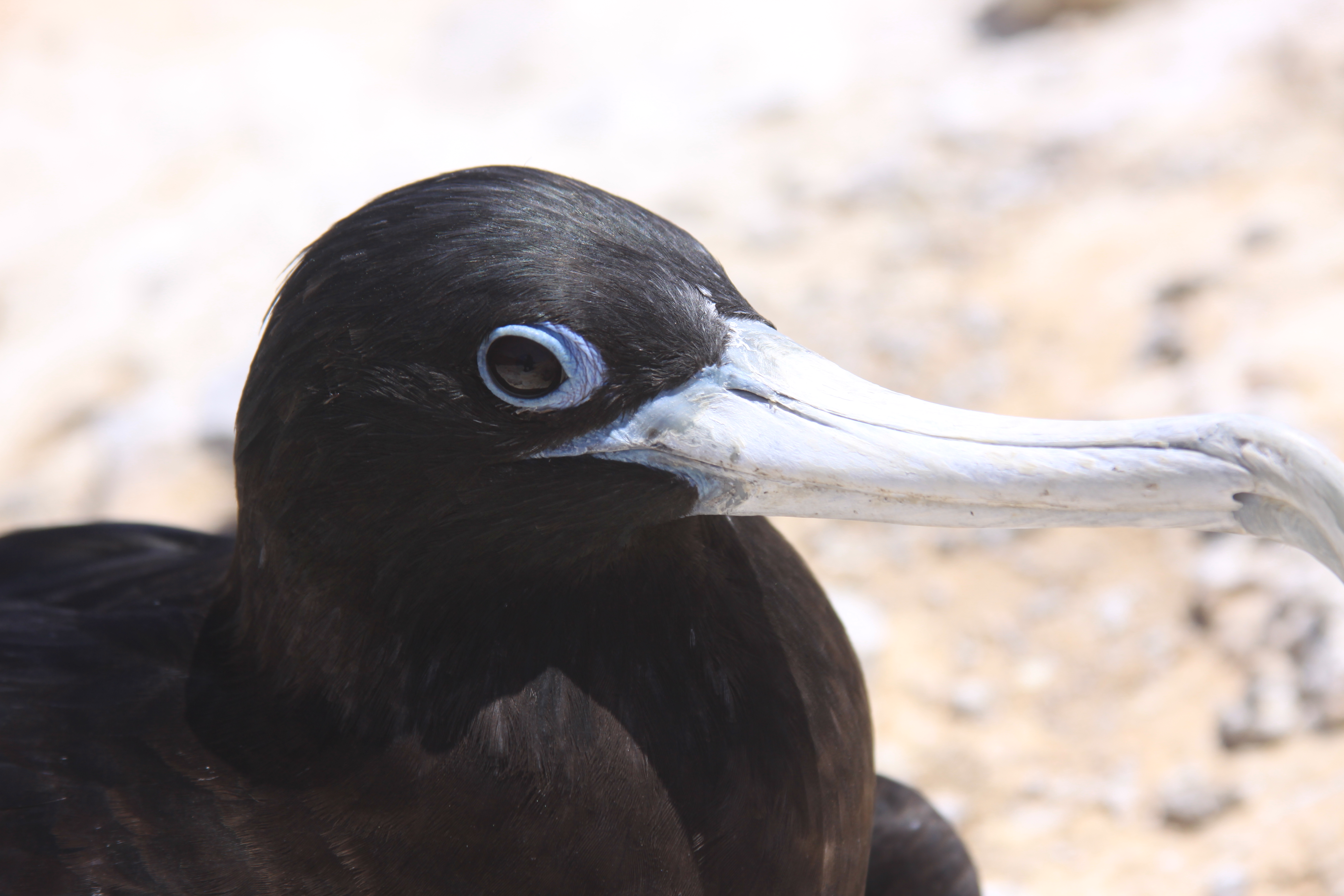 Taken on an RSPB funded expedition to BoatswainBird Island